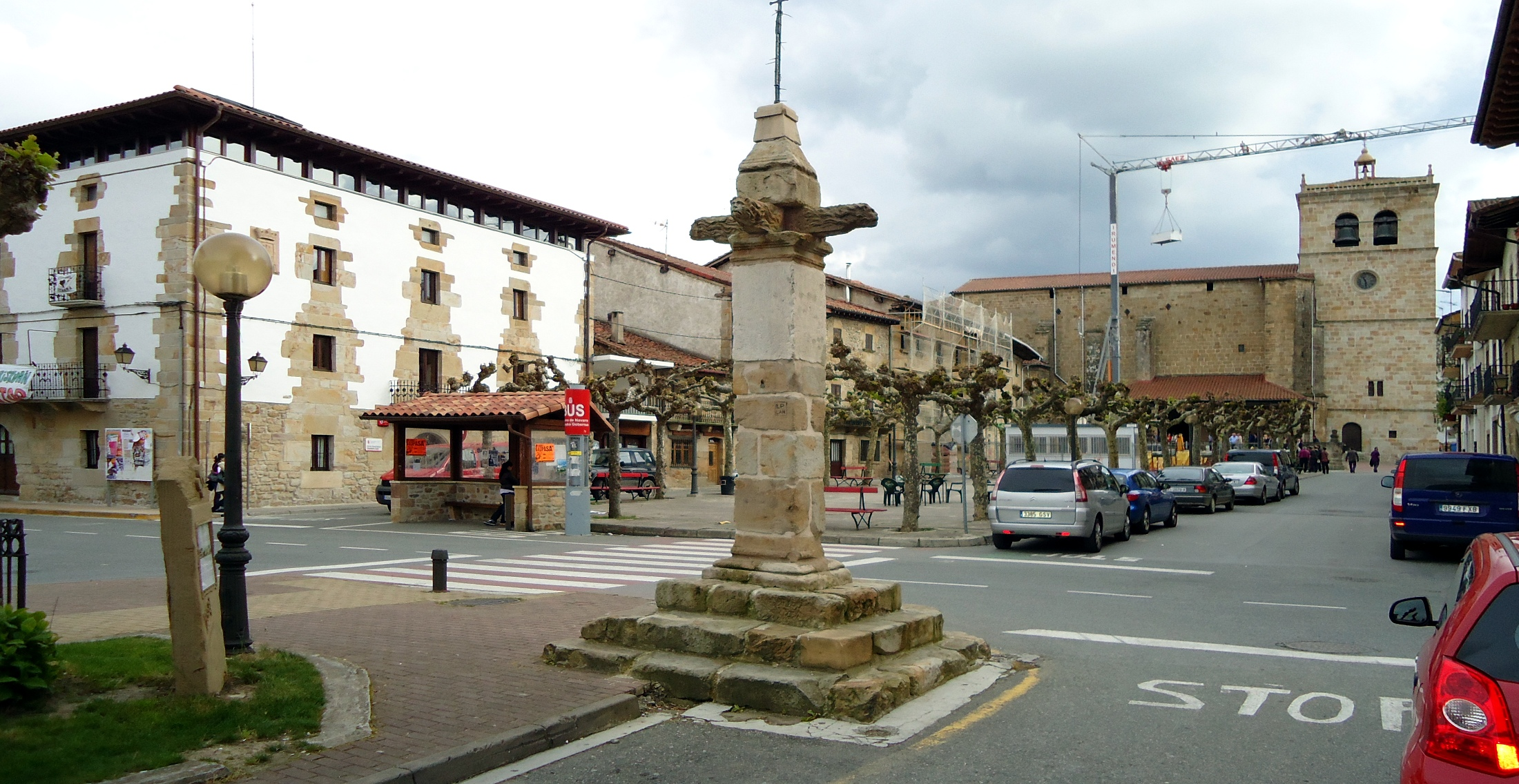 Lakuntza village (Sakana, Navarre)